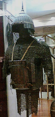 Helmet with char-aina (chahar-aina, chahar a’ineh), literally the four mirrors, chest armor with four plates, worn on top of a zirah (mail shirt), popular in Persia, Central Asia, India. (the Central State Museum of Republic of Kazakhstan)